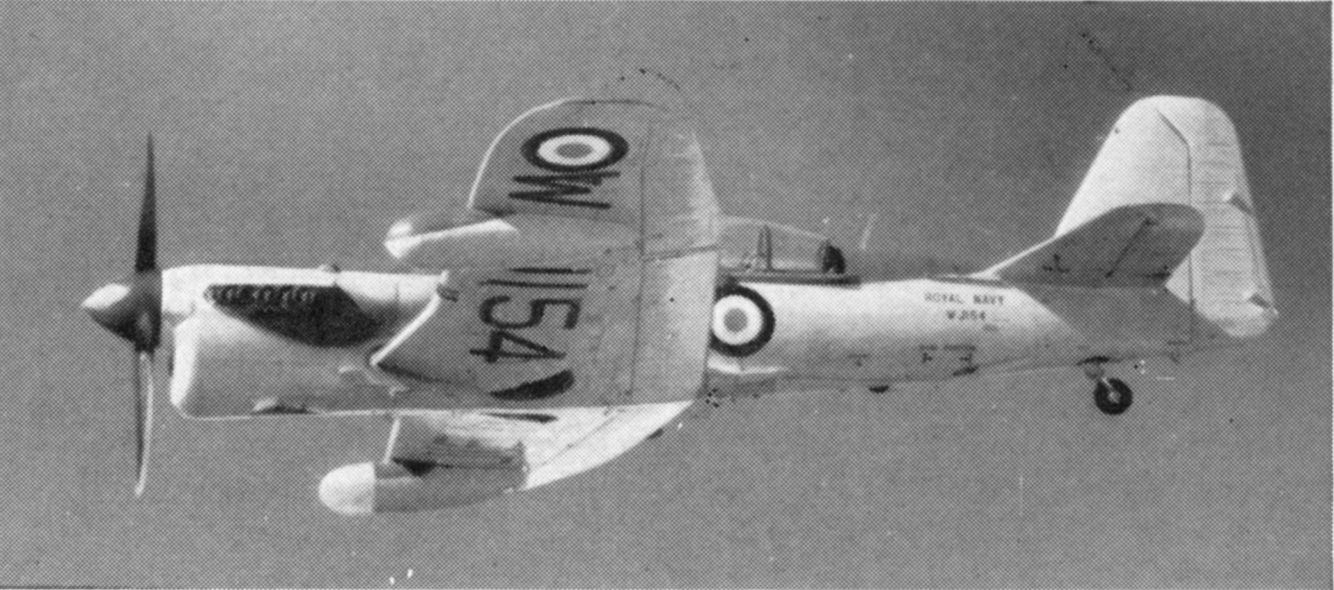 The Fairey Firefly AS7. The 1956 edition of the Observer's Book of Aircraft used 15 Crown Copyright silhouettes provided by the Controller of H.M. Stationery. An acknowledgements section on page 6 of the book identifies them by page. This image is one of those and since the publication date is pre-1957 is in the public domain.